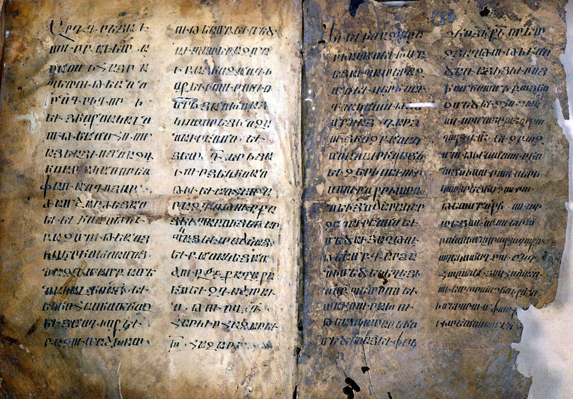 Colophon in an Armenian gospel, written in 1099, during the reign of Gregory II the Martyrophile. The scribe Aaron mentions the capture of Jerusalem by the Franks